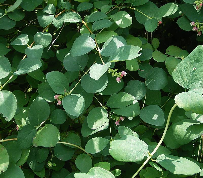 Symphoricarpos albus